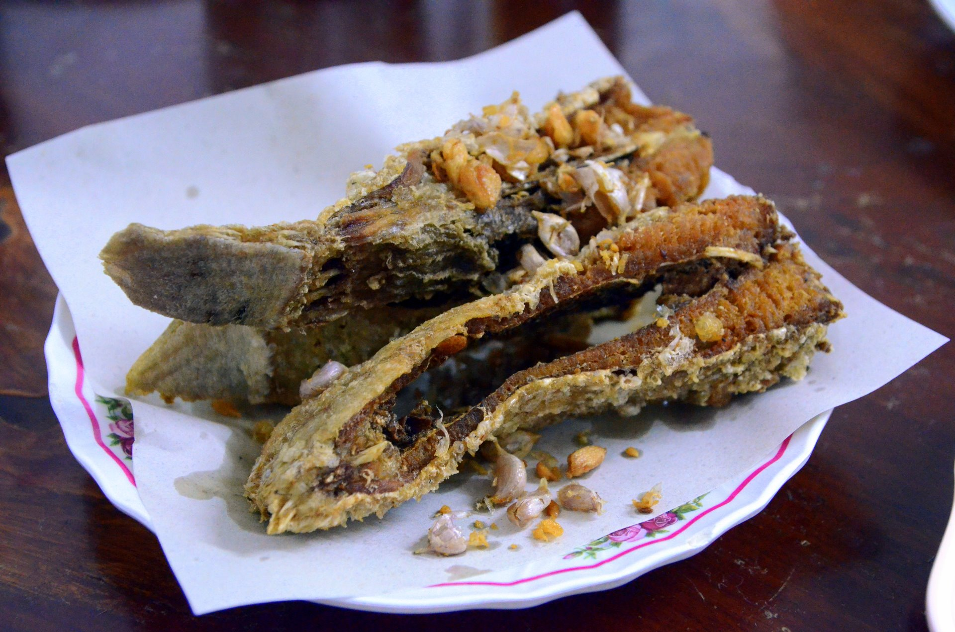 Pla krai thot krathiam (Thai script: ปลากรายทอดกระเทียม): deep-fried pla krai and garlic. The pla krai fish belongs to the genus Chitala: Asian knifefish. It is served with a spicy dipping sauce on the side made by mashing up coriander roots, bird's eye chillies and garlic, and mixing this with fish sauce, lime juice and sugar.